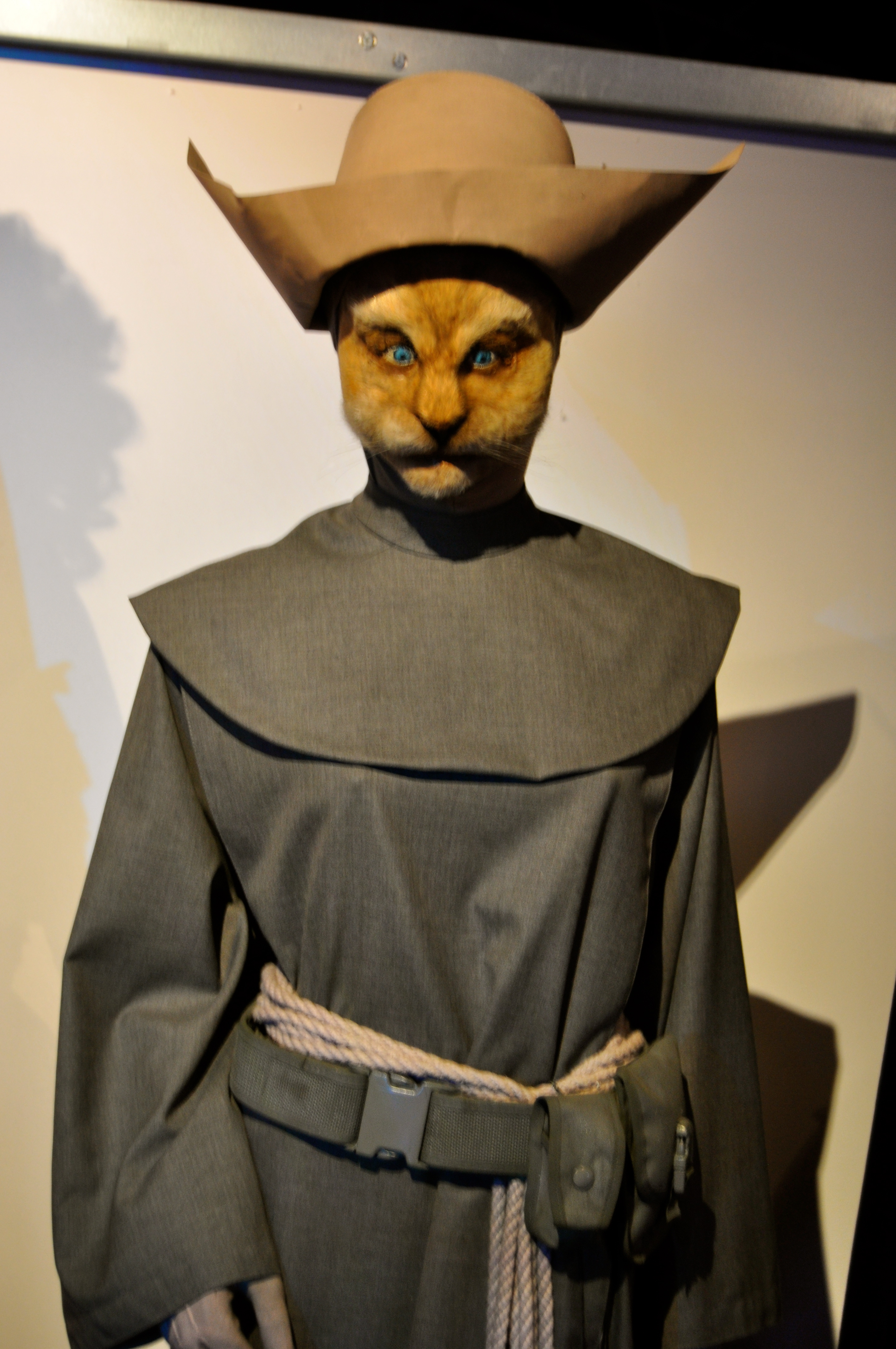 DWE Cardiff Bay, Port Teigr November 2016 Doctor Who Experience